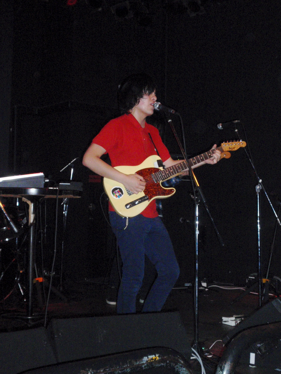 Matias Tellez